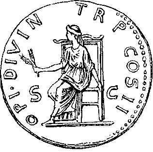 OPI DIVIN TR P COS II, Ops seated left, holding two corn ears, left hand on top of throne. RIC 8a, RSC 33a. (munt van Pertinax, Ar Denarius)